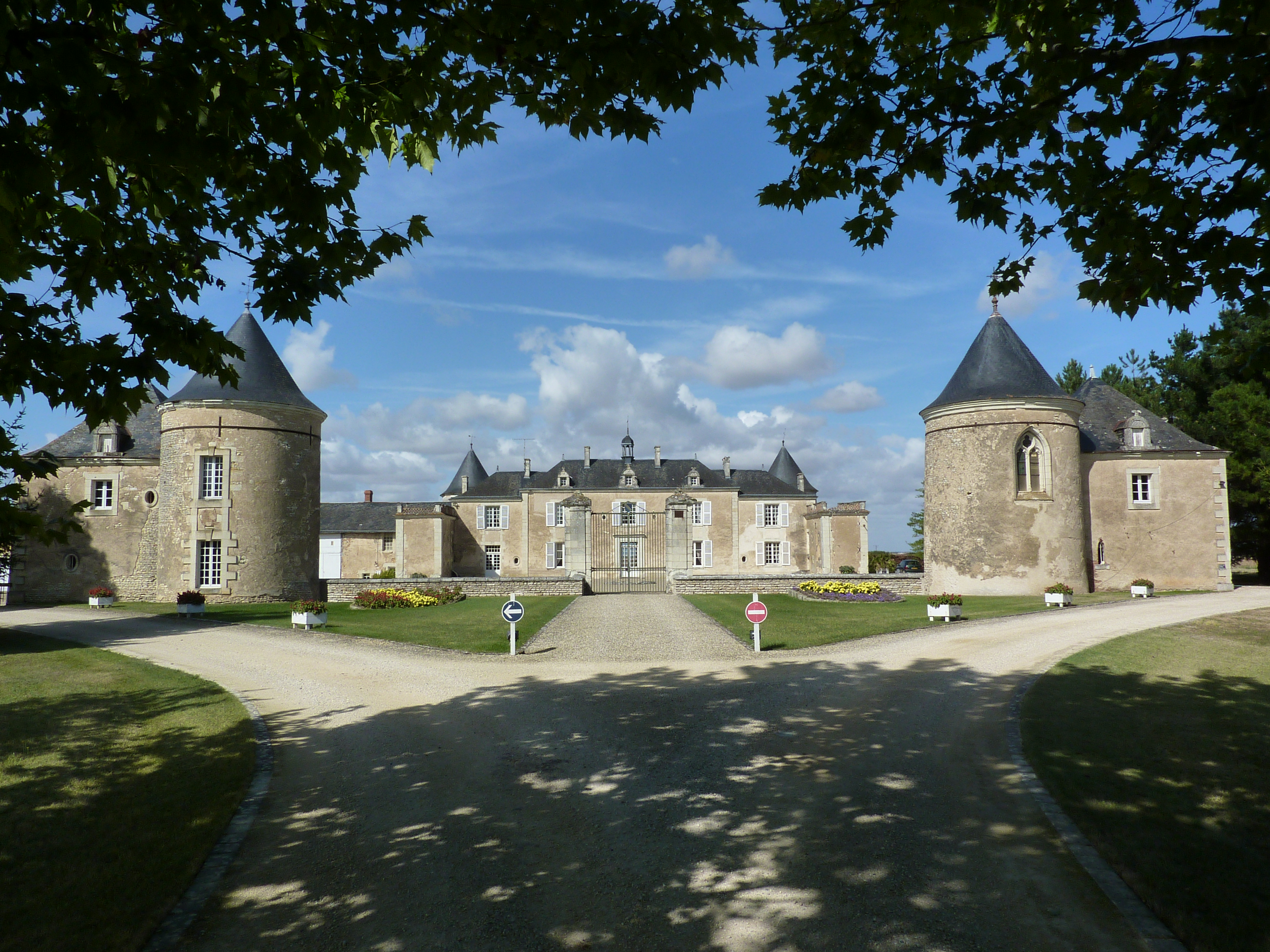 Overall view